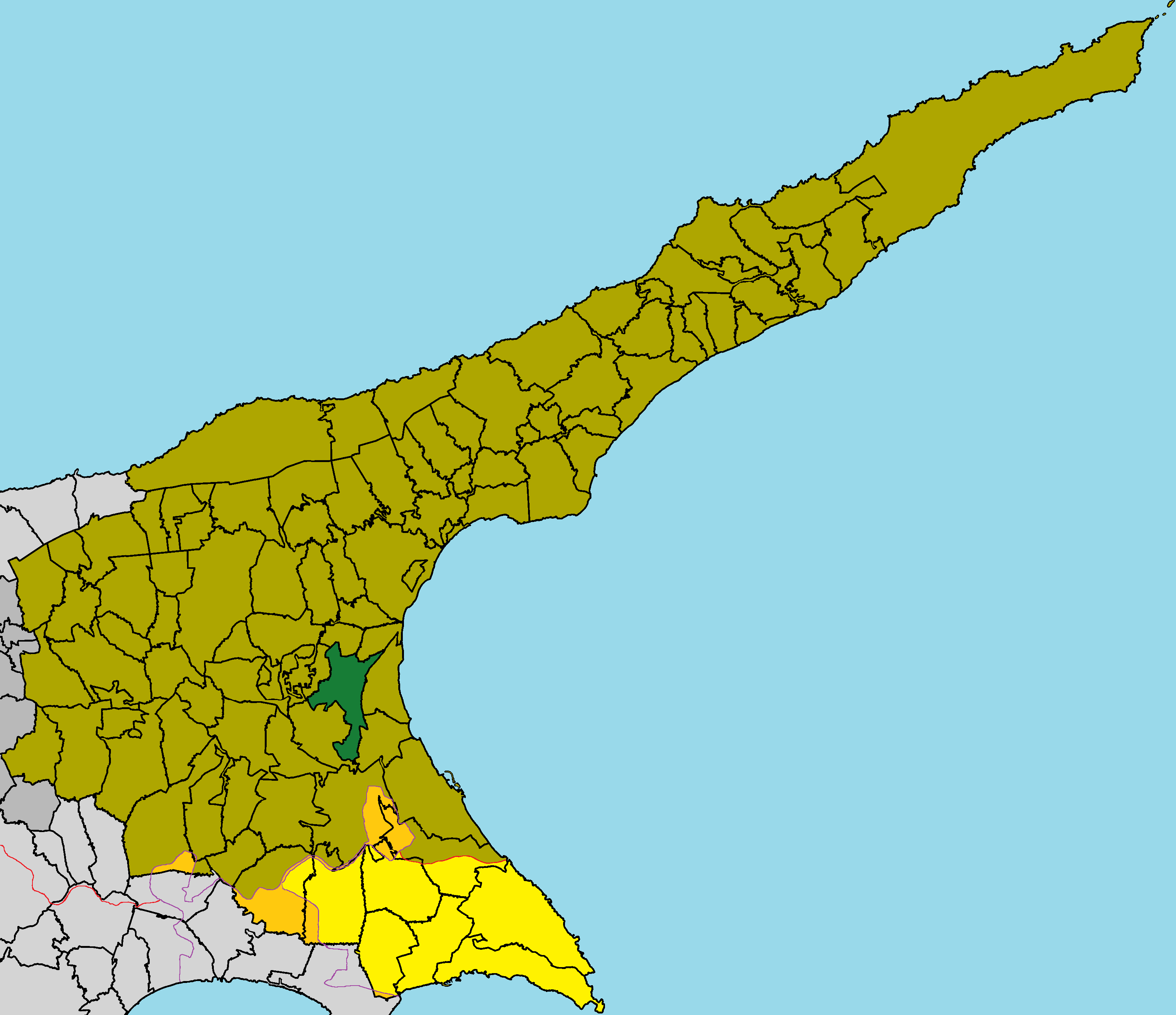 Limnia in Famagusta District (de jure).